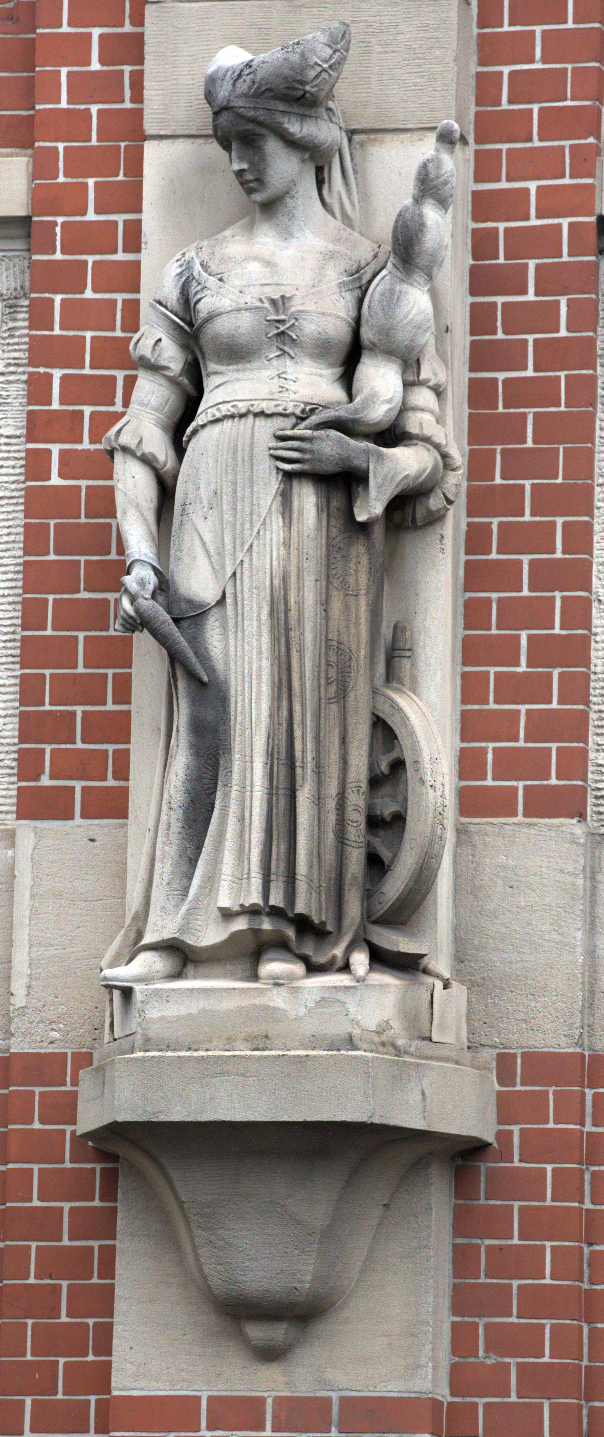 Statue located on the front of the former spinnings works "Horkheimer".